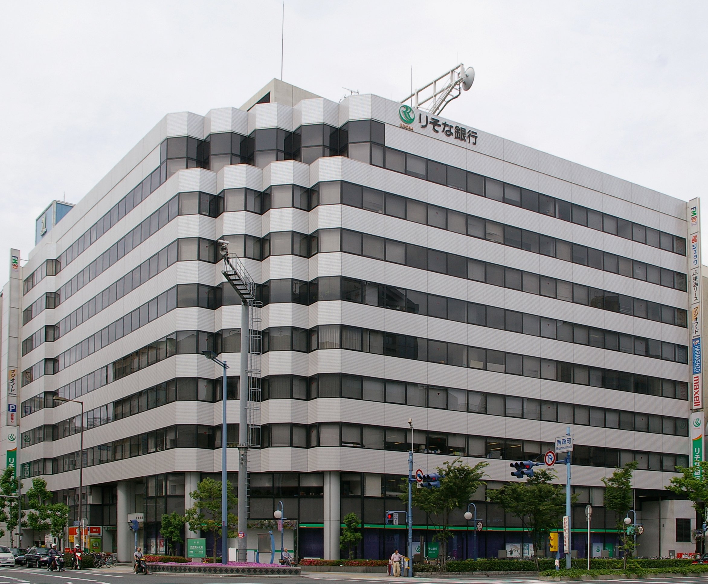 Photograph of Daiwa Minamimorimachi Building in Kita-ku, Osaka, Osaka Prefecture, Japan.